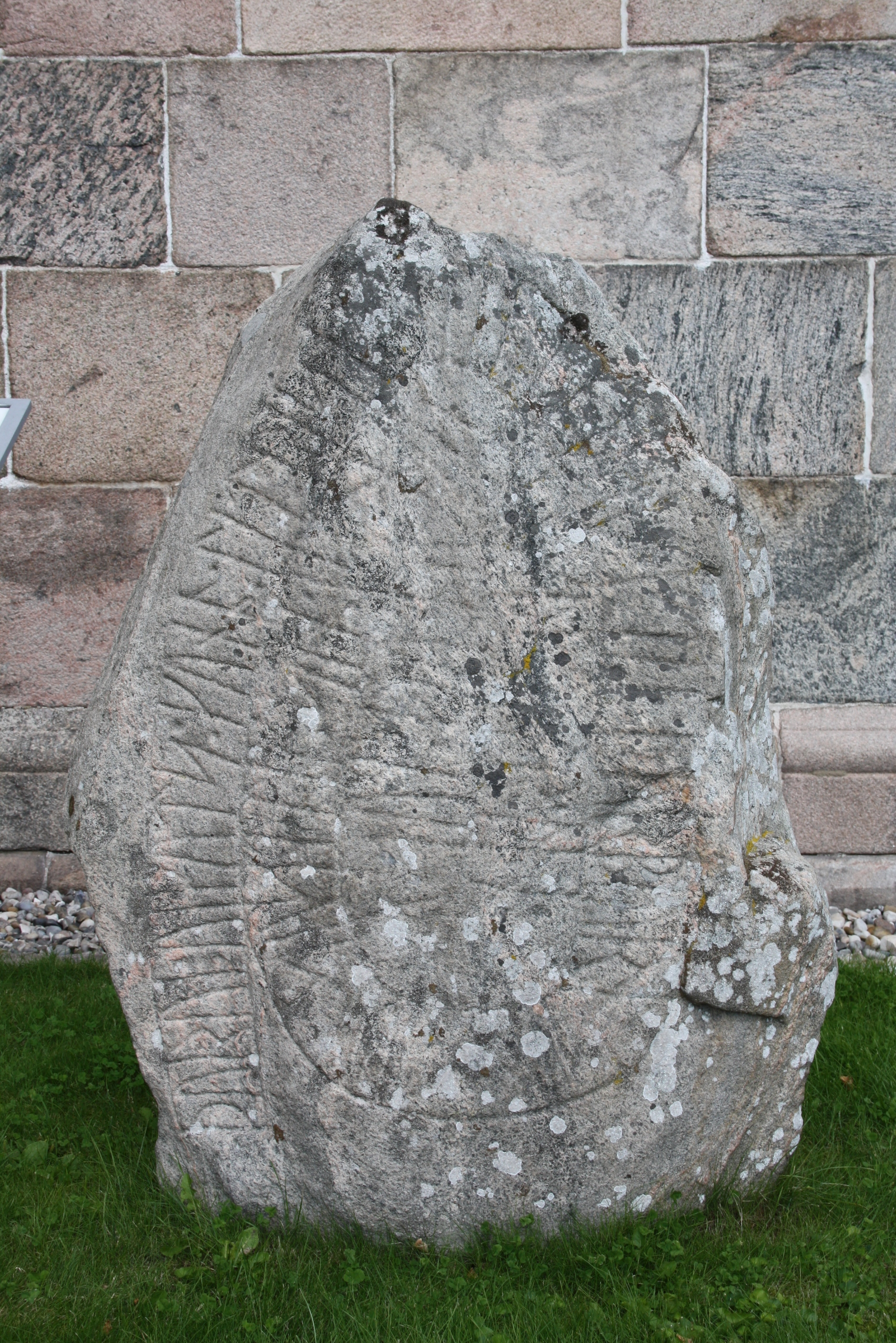 Runestone (Ålum 4) at Ålum Church, Mid-Jutland, Denmark. Runesten (Ålum 4) ved Ålum kirke øst for Randers.